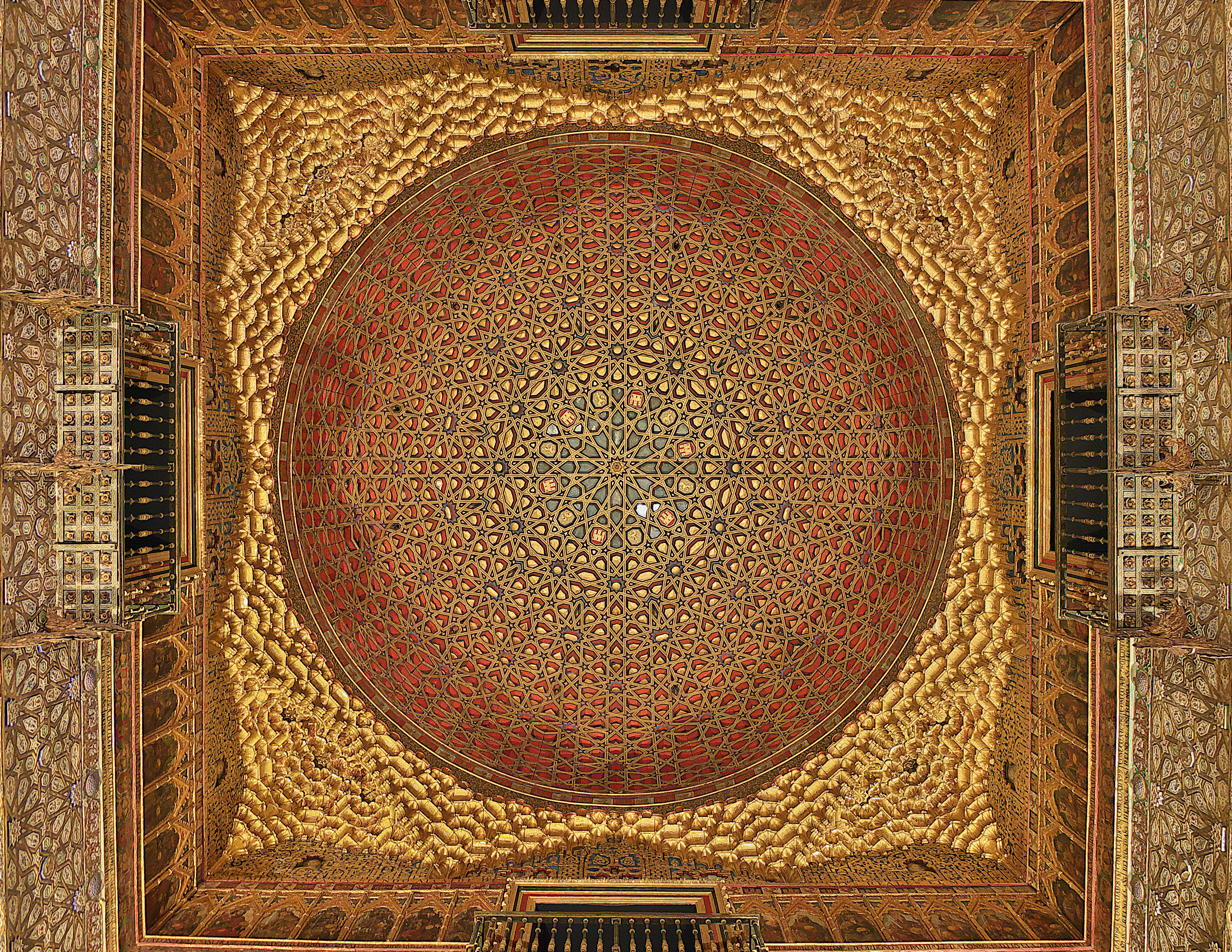 Lounge of the Ambassadors. Vault